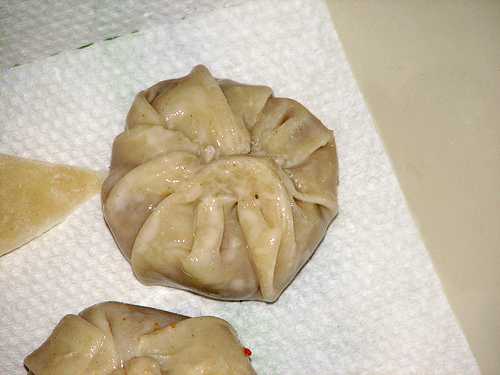 A Nepali 'momo', also known as momocha.